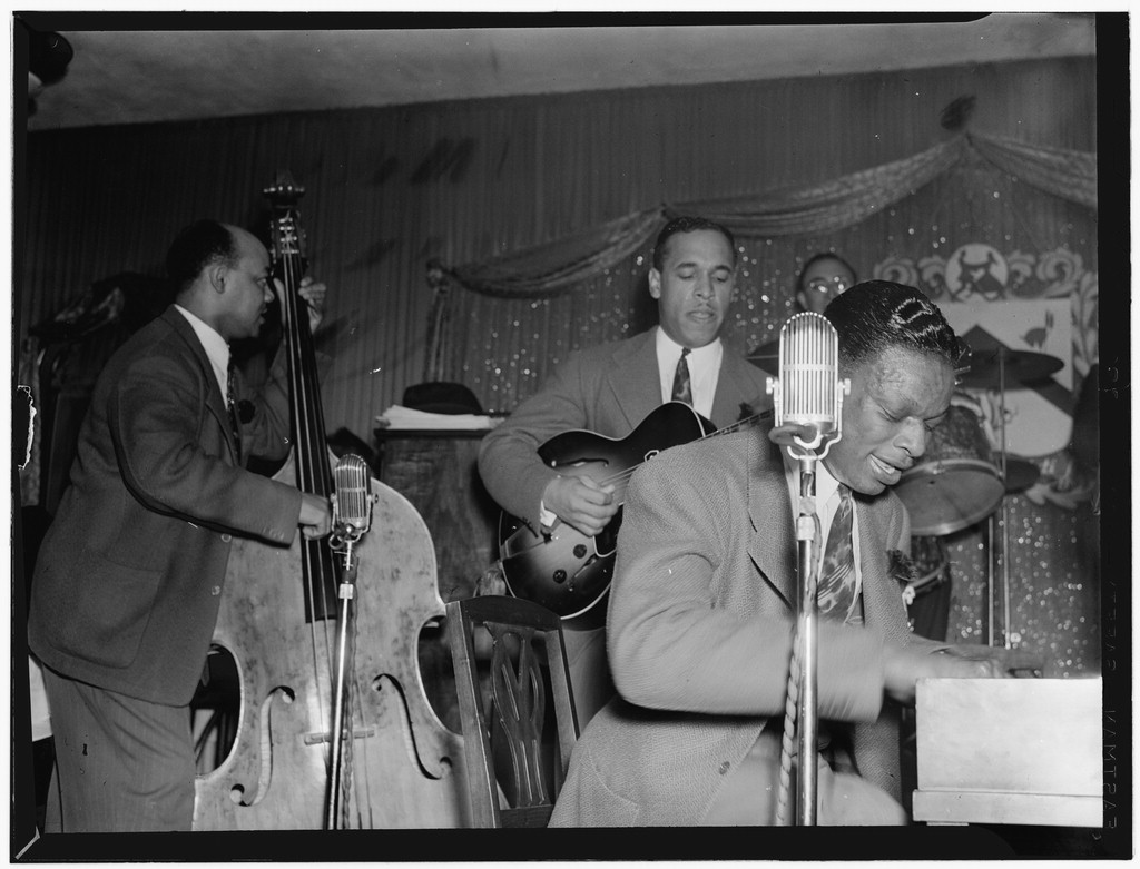 Gottlieb, William P., 1917-, photographer. [Portrait of Wesley Prince, Oscar Moore, and Nat King Cole, Zanzibar, New York, N.Y., ca. July 1946] 1 negative : b&w ; 3 1/4 x 4 1/4 in. Notes: Gottlieb Collection Assignment No. 082 Reference print available in Music Division, Library of Congress. Purchase William P. Gottlieb Forms part of: William P. Gottlieb Collection (Library of Congress). Subjects: Prince, Wesley Moore, Oscar Cole, Nat King, 1917-1965 King Cole Trio Jazz musicians--1940-1950. Pianists--1940-1950. Jazz singers--1940-1950. Guitarists--1940-1950. Double bassists--1940-1950. Zanzibar Format: Portrait photographs--1940-1950. Group portraits--1940-1950. Film negatives--1940-1950. Rights Info: Mr. Gottlieb has dedicated these works to the public domain, but rights of privacy and publicity may apply. Repository: (negative) Library of Congress, Prints & Photographs Division, Washington D.C. 20540 USA, (reference print) Library of Congress, Music Division, Washington D.C. 20540 USA, Part Of: William P. Gottlieb Collection (DLC) 99-401005 General information about the Gottlieb Collection is available at Persistent URL: Call Number: LC-GLB13- 0158 This work is from the William P. Gottlieb collection at the Library of Congress. Rights and restrictions.In accordance with the wishes of William Gottlieb, the photographs in this collection entered into the public domain on February 16, 2010.